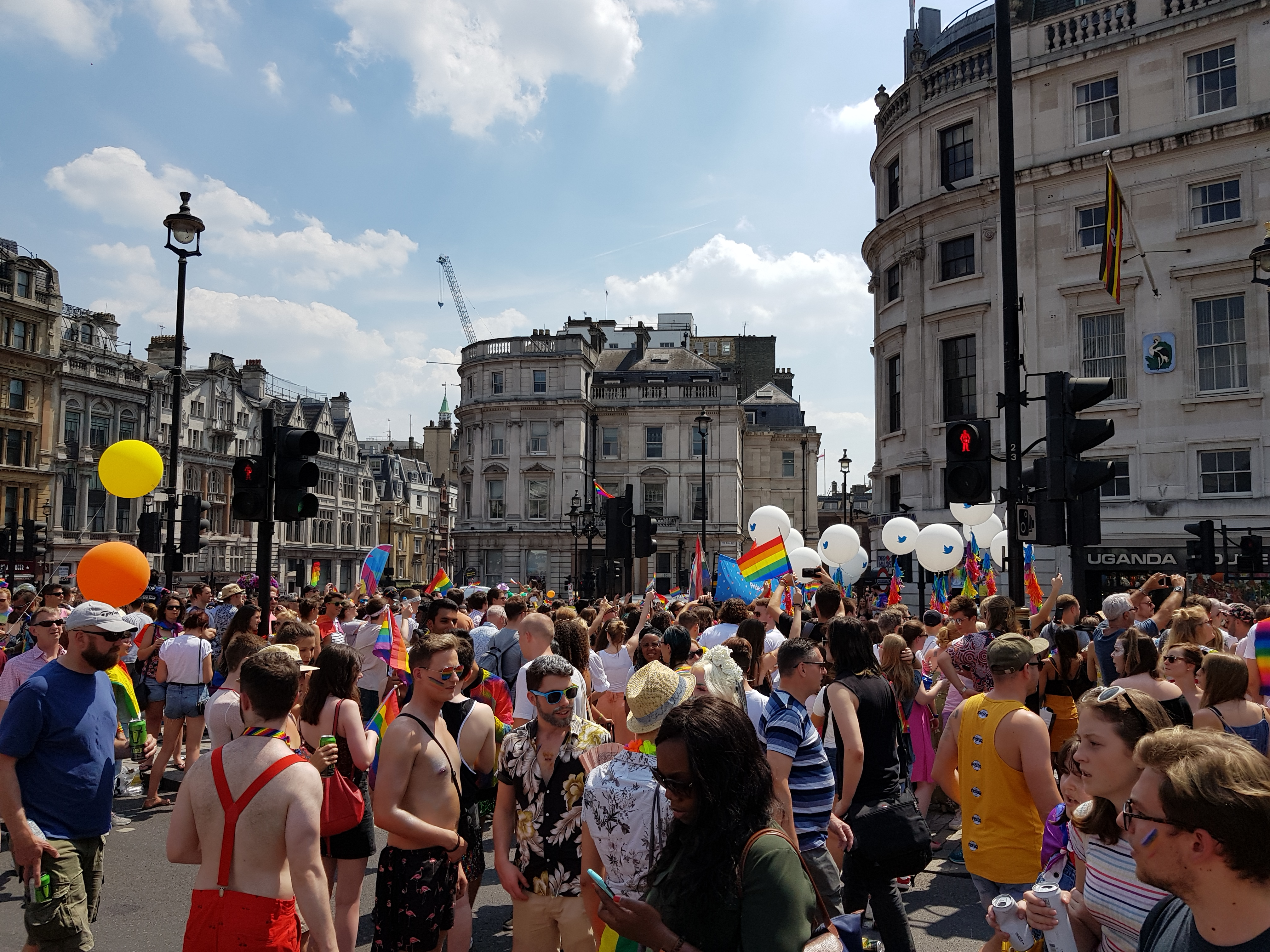 Photos taken inbetween being a steward.